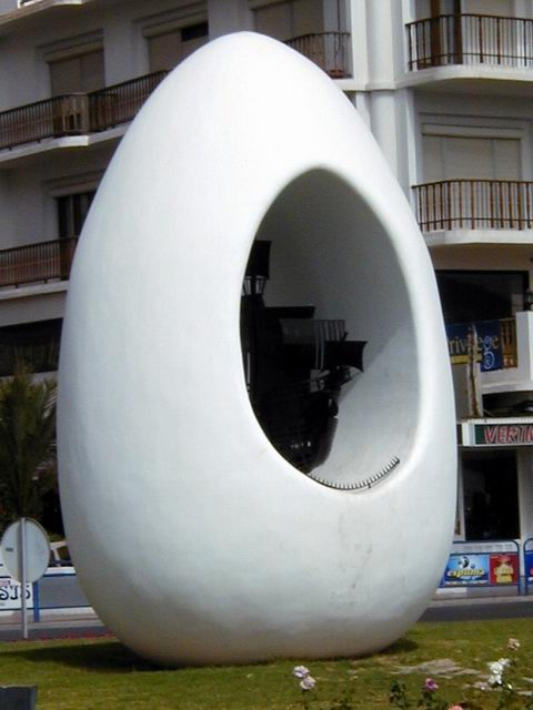 Monument to the discovery of America by Columbus in the shape of an egg in Sant Antoni de Portmany, Ibiza, Spain.